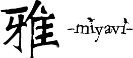 Japanese singer miyavi's logo.